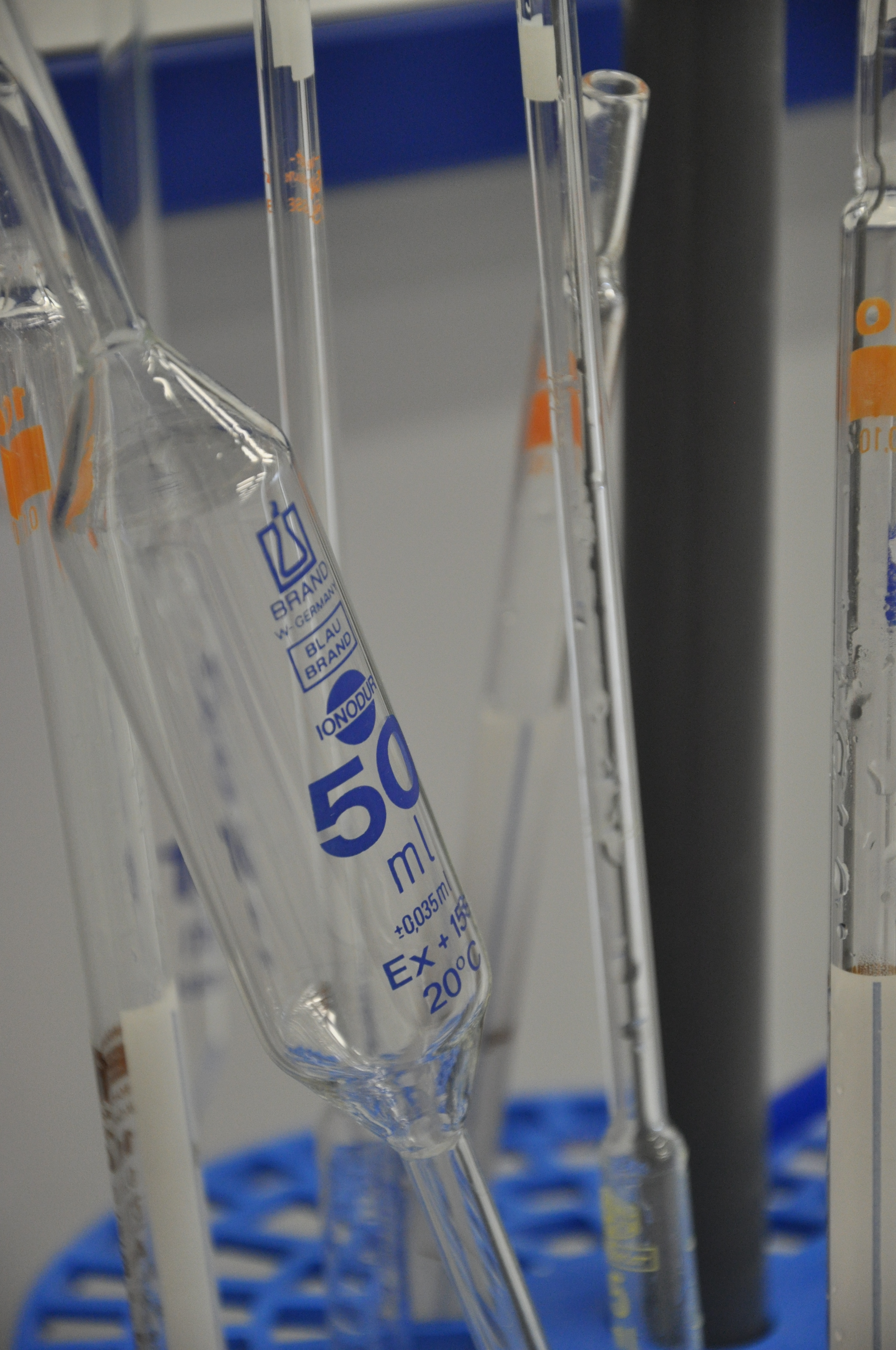 volumetric pipette (50 mL)